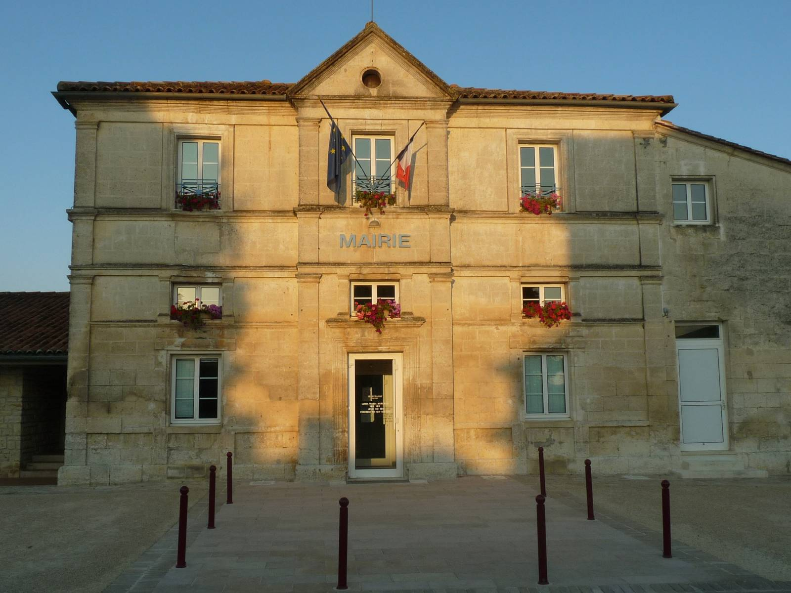 town hall of Dirac, Charente, SW France